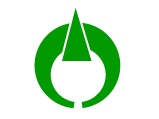 Flag of Oguni Yamagata